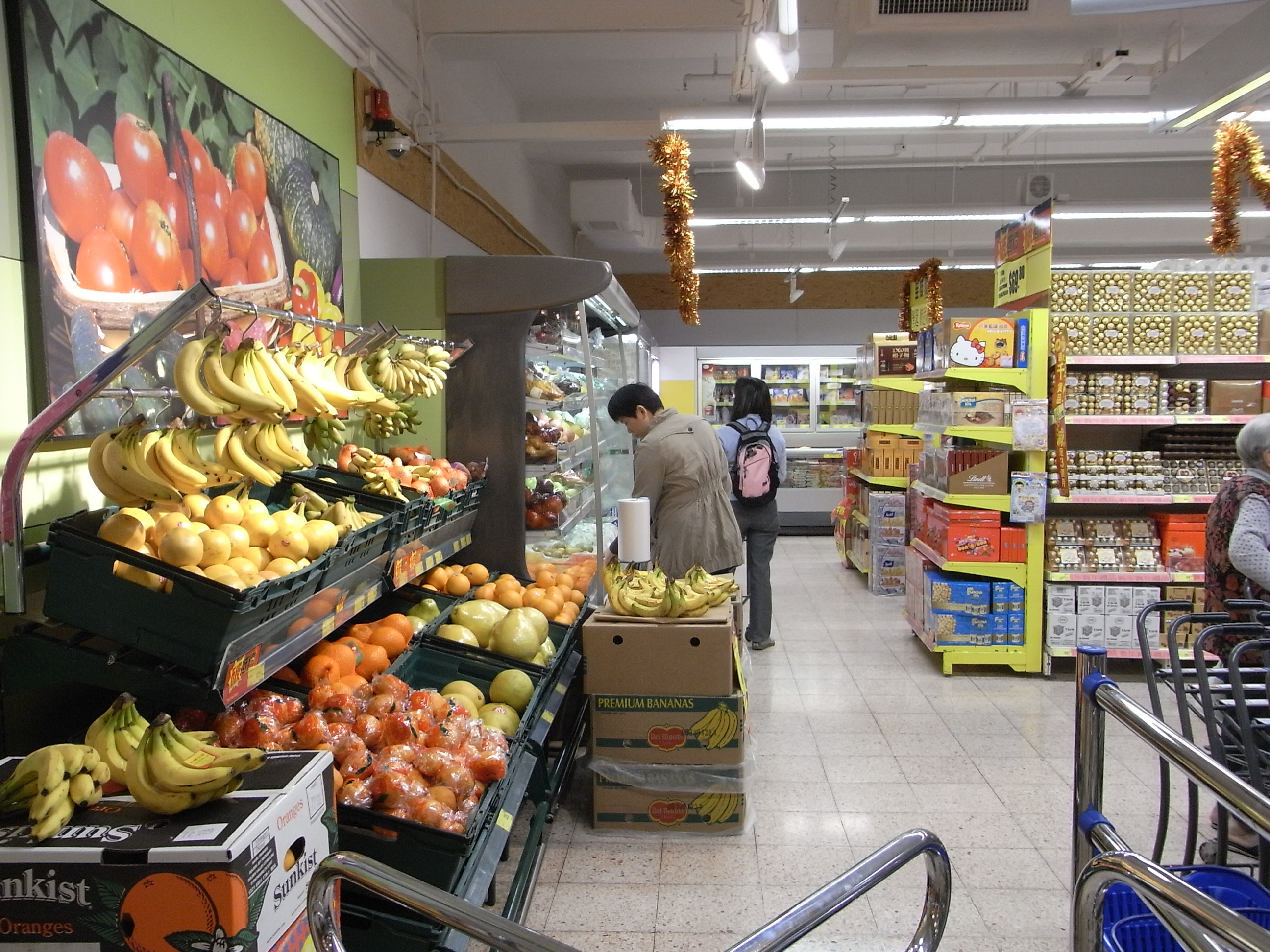 長沙灣zh:幸福邨 幸福商場